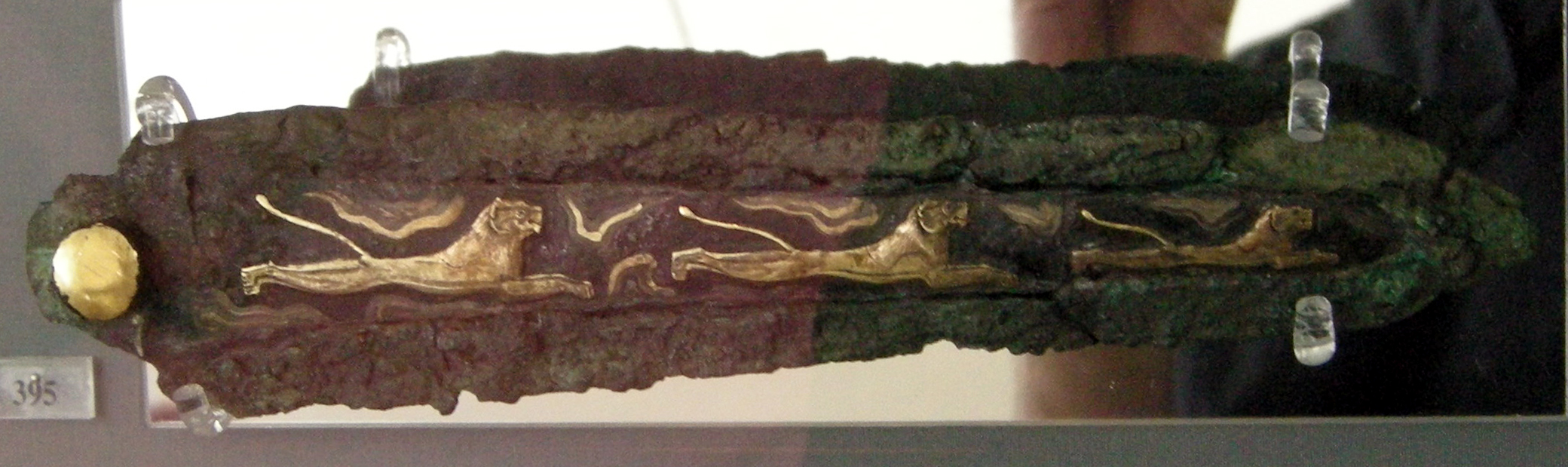 Mycenaean Collections in the National Archaeological Museum of Athens